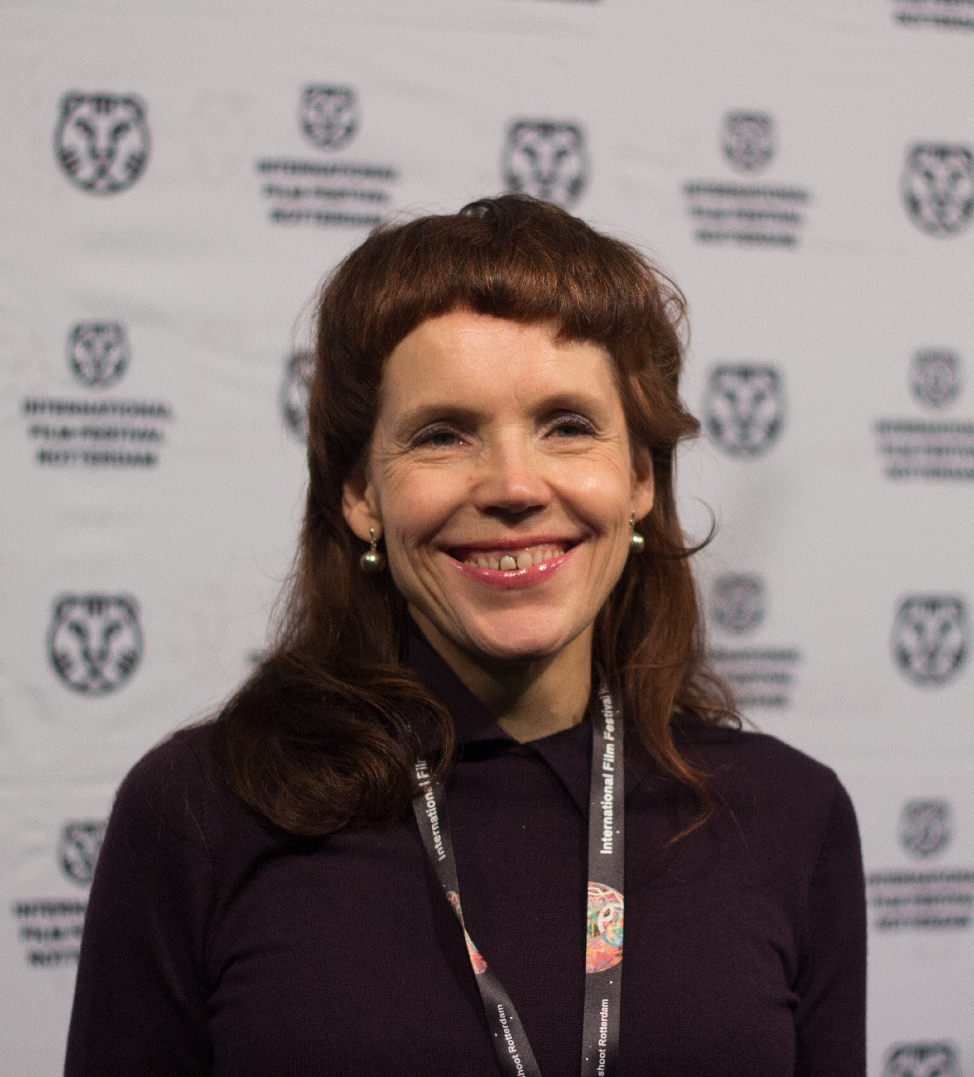 Maria Zennström at the IFFR 2017